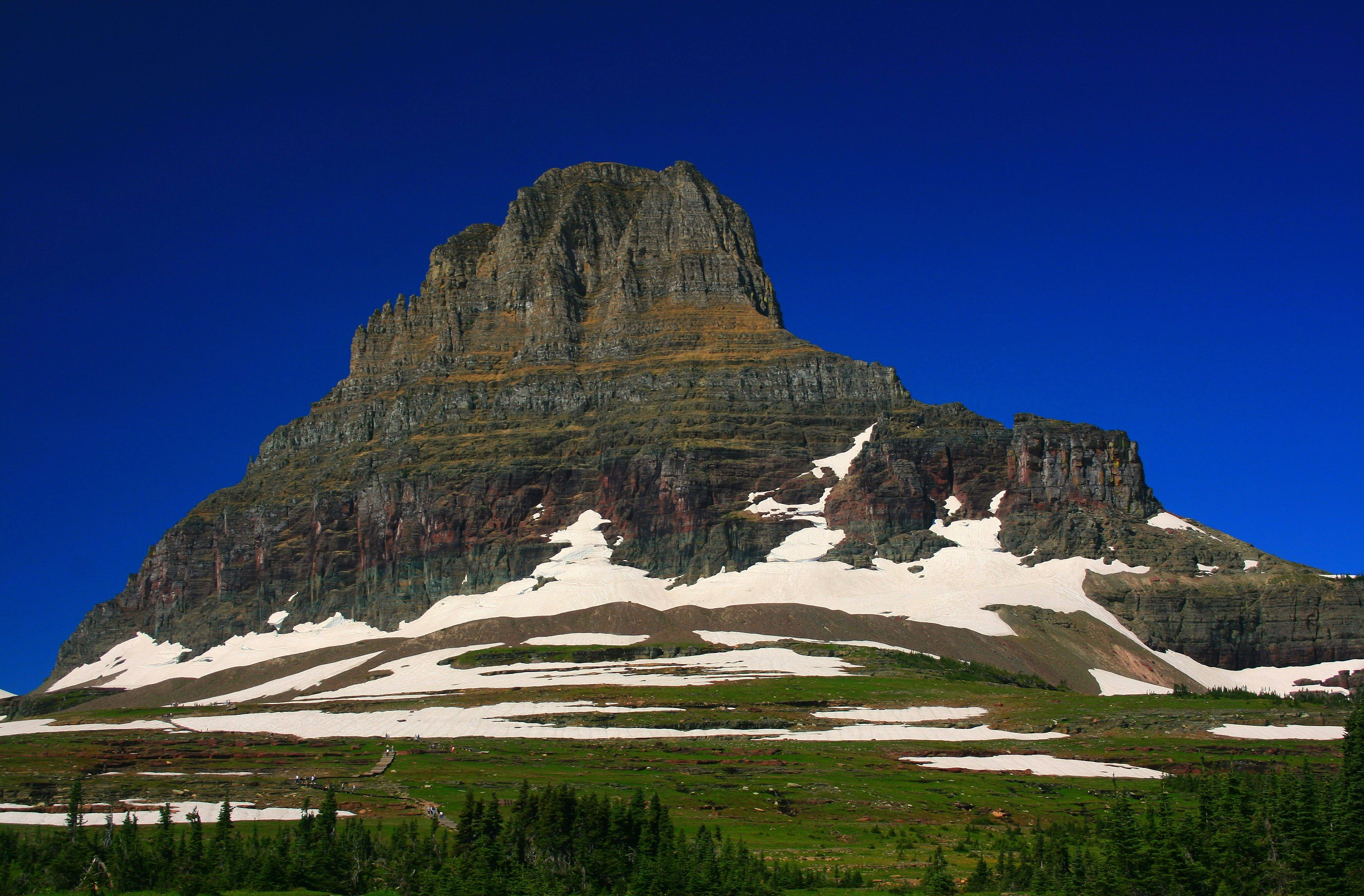 Clements Mountain, Glacier National Park (U.S.)